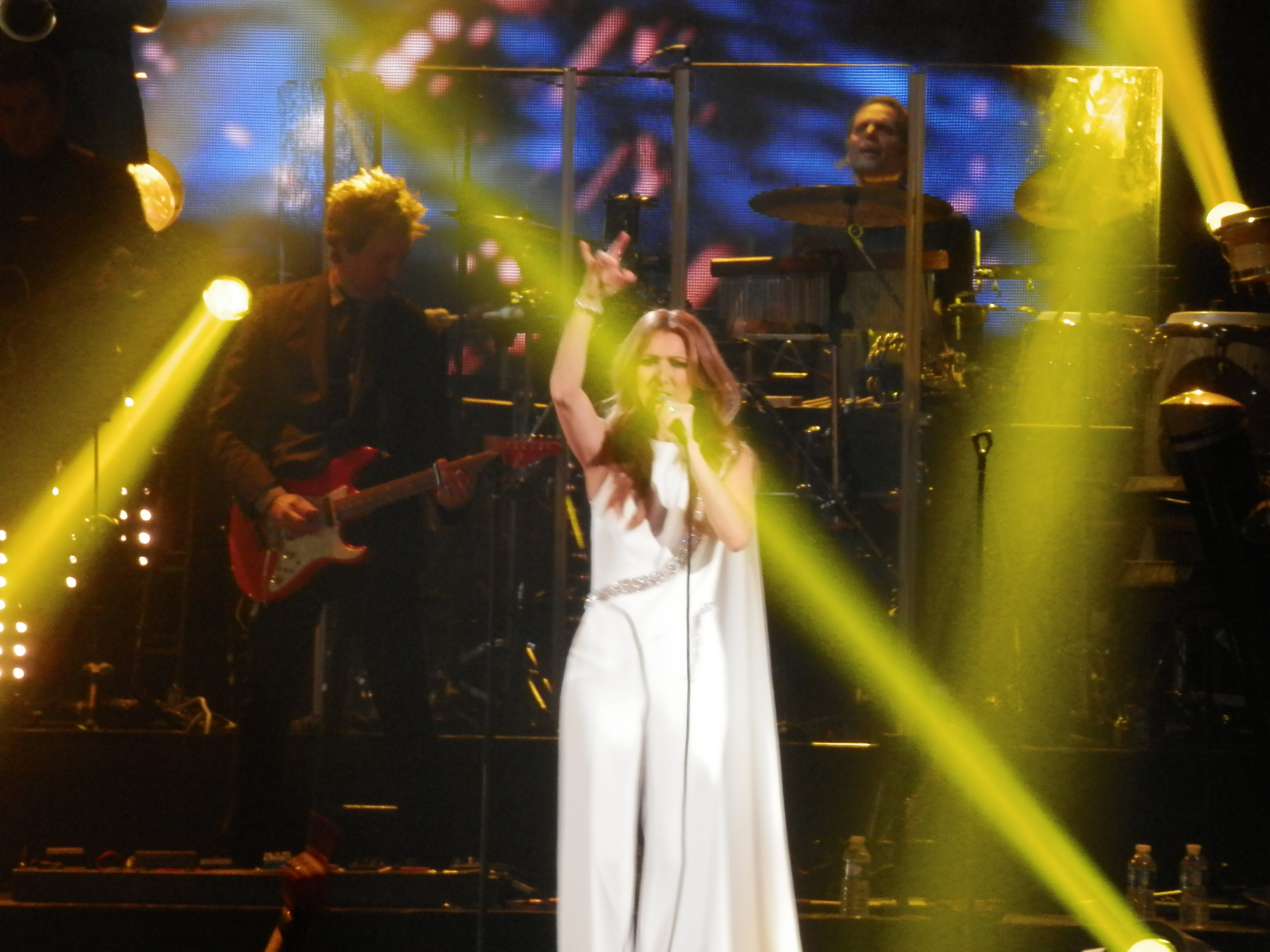 Celine Dion in Paris, Bercy, 2013-11-25